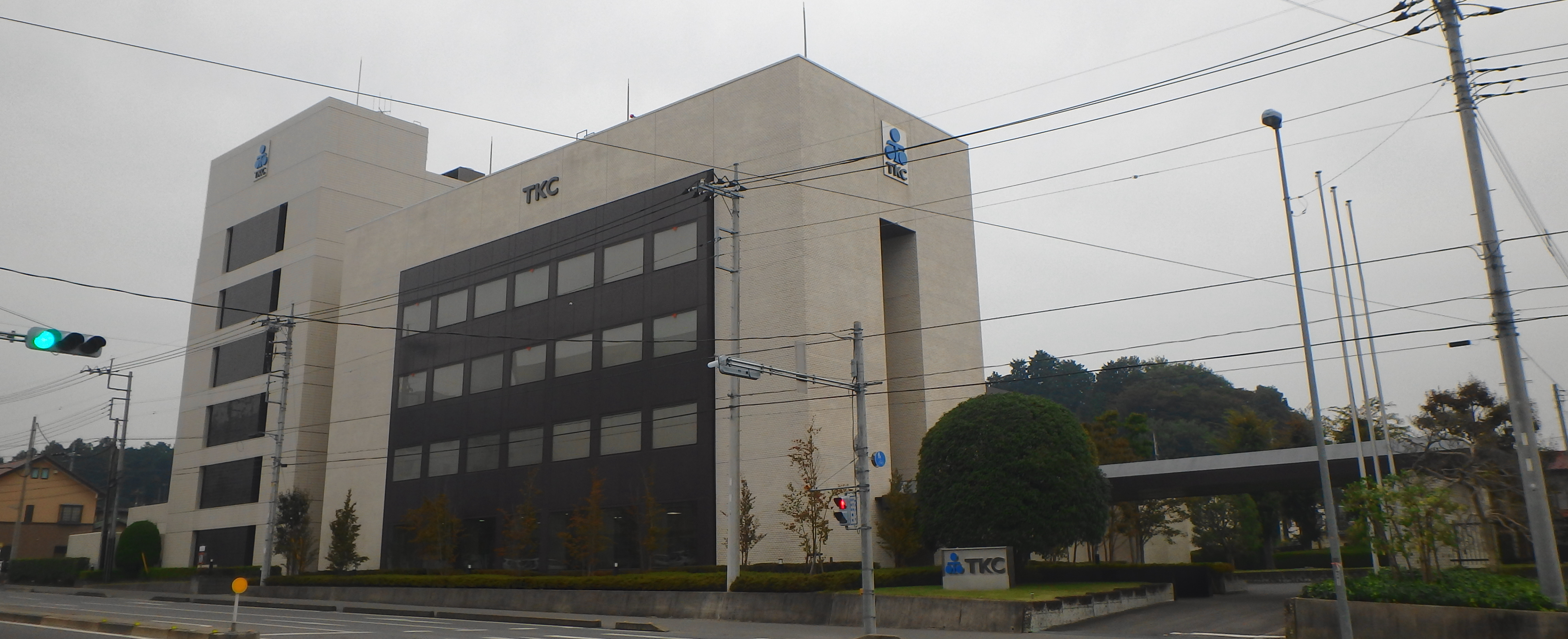 Headquarters of TKC Corporation,Tochigi prefecture,Japan